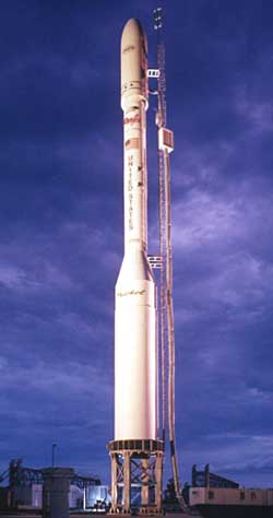 Taurus rocket carrying ROCSAT-2 on launch pad.